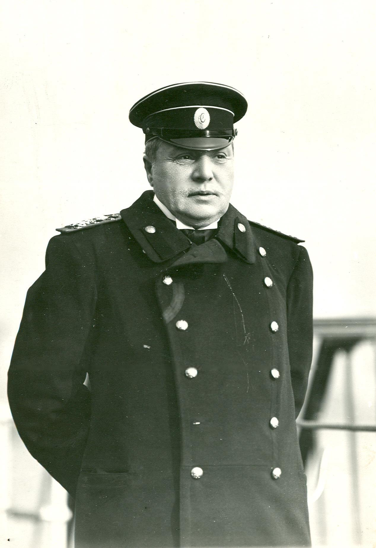 Konstantin Nilov (1856-1919), Russian admiral.